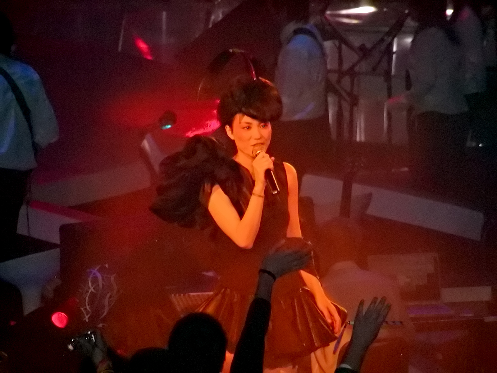 Faye Wong.